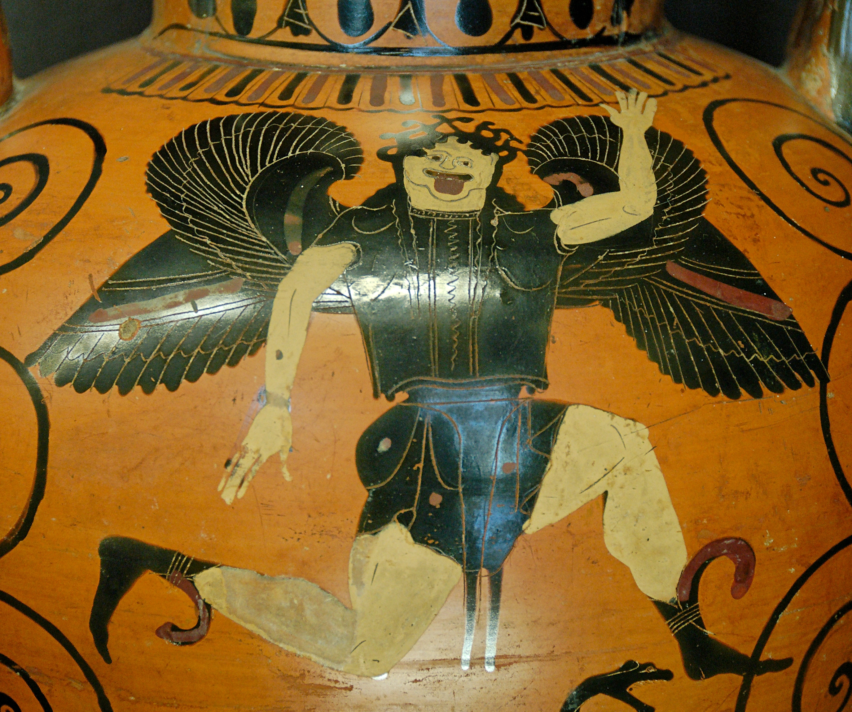 Gorgon. Side A from an Attic black-figure neck-amphora, ca. 520–510 BC.